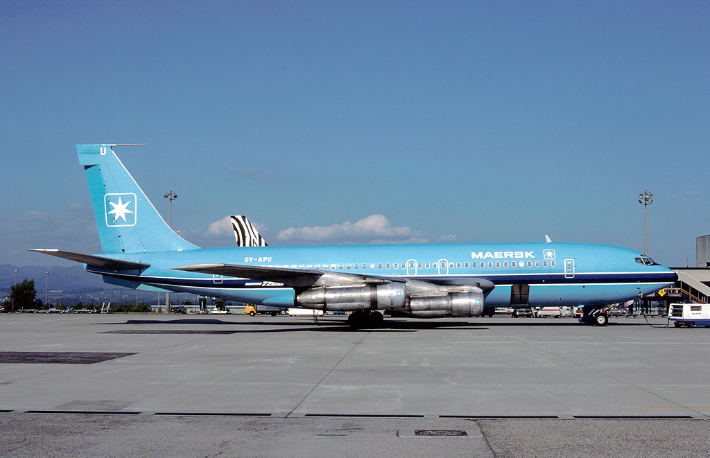 Maersk Air Boeing 720-051B OY-APU at Euroairport (Basel, Mulhouse, Freiburg)